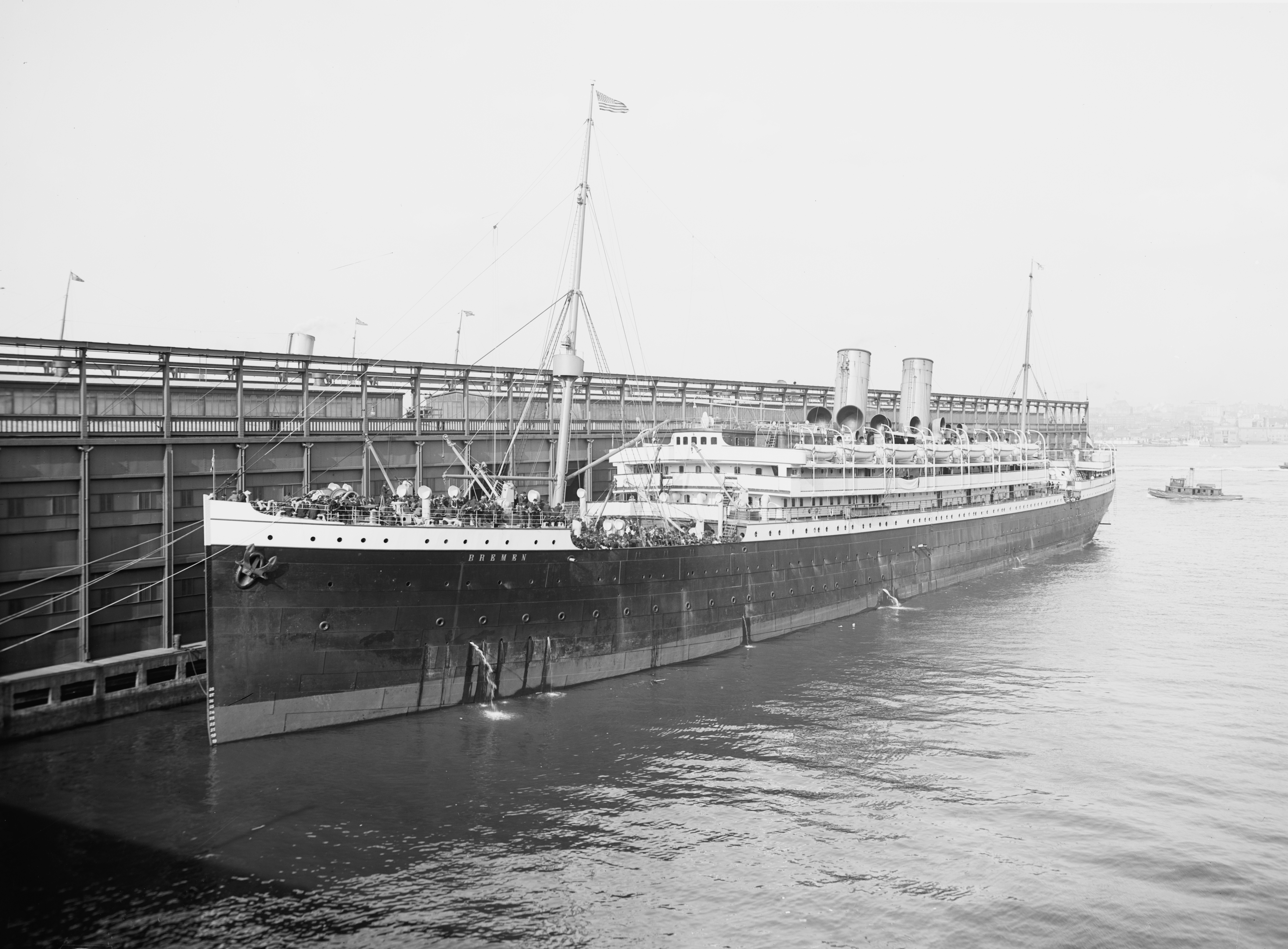 Original caption: “The S.S. Bremen, North German Lloyde [i.e. Lloyd] Pier, Hoboken, N.J.” Reproduction Number: LC-D4-18451 Medium: 1 negative : glass ; 8 x 10 in. Repository: Library of Congress Prints and Photographs Division Washington, D.C. 20540 USA